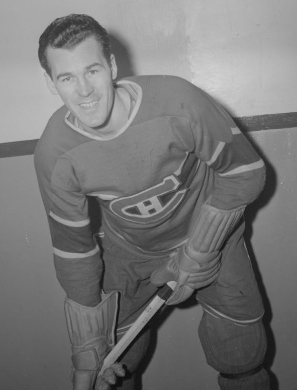 We see Emile (Butch) Bouchard, hockey player for the Montreal Canadiens. He is on the ice, leaning on his stick.